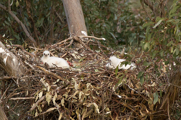 Not the best photo technically, but quite a treat to look down into their nest.